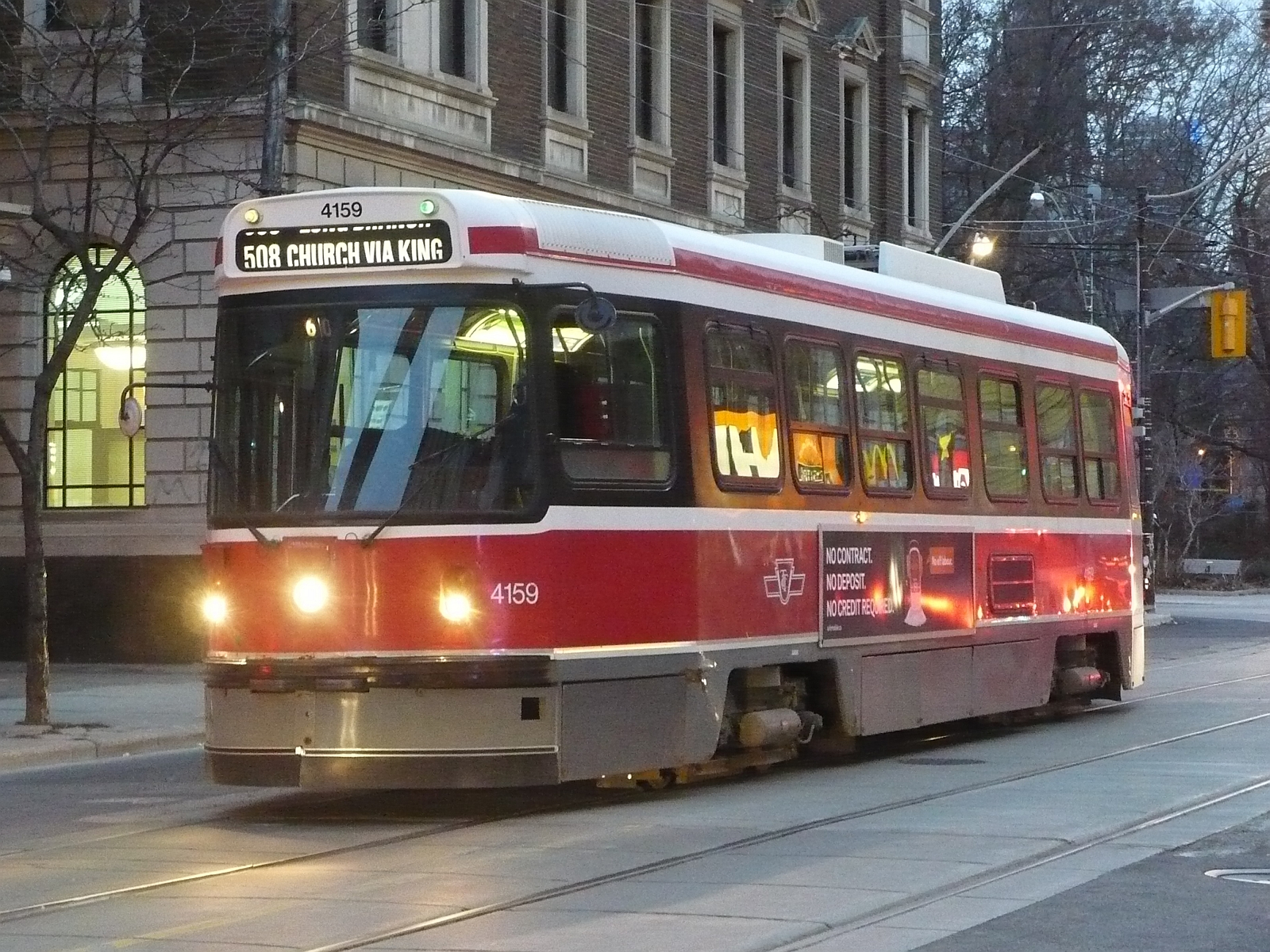 A Canadian Light Rail Vehicle on the "508 Lake Shore" streetcar route of the Toronto Transit Commision, on Church Street south of Queen Street East. The streetcar has just looped and is waiting to commence afternoon service to Long Branch.